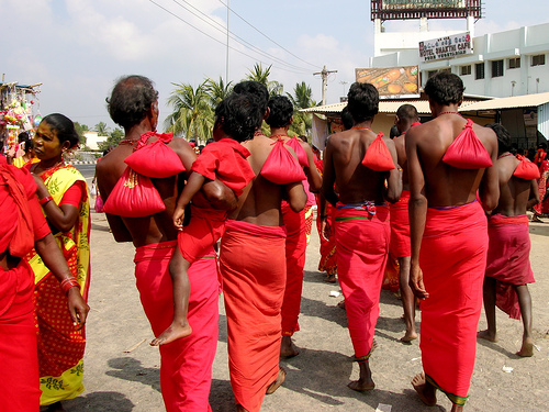 Devotees of Shiva on a pilgrimage, wearing red veshtis and carrying red sacks.